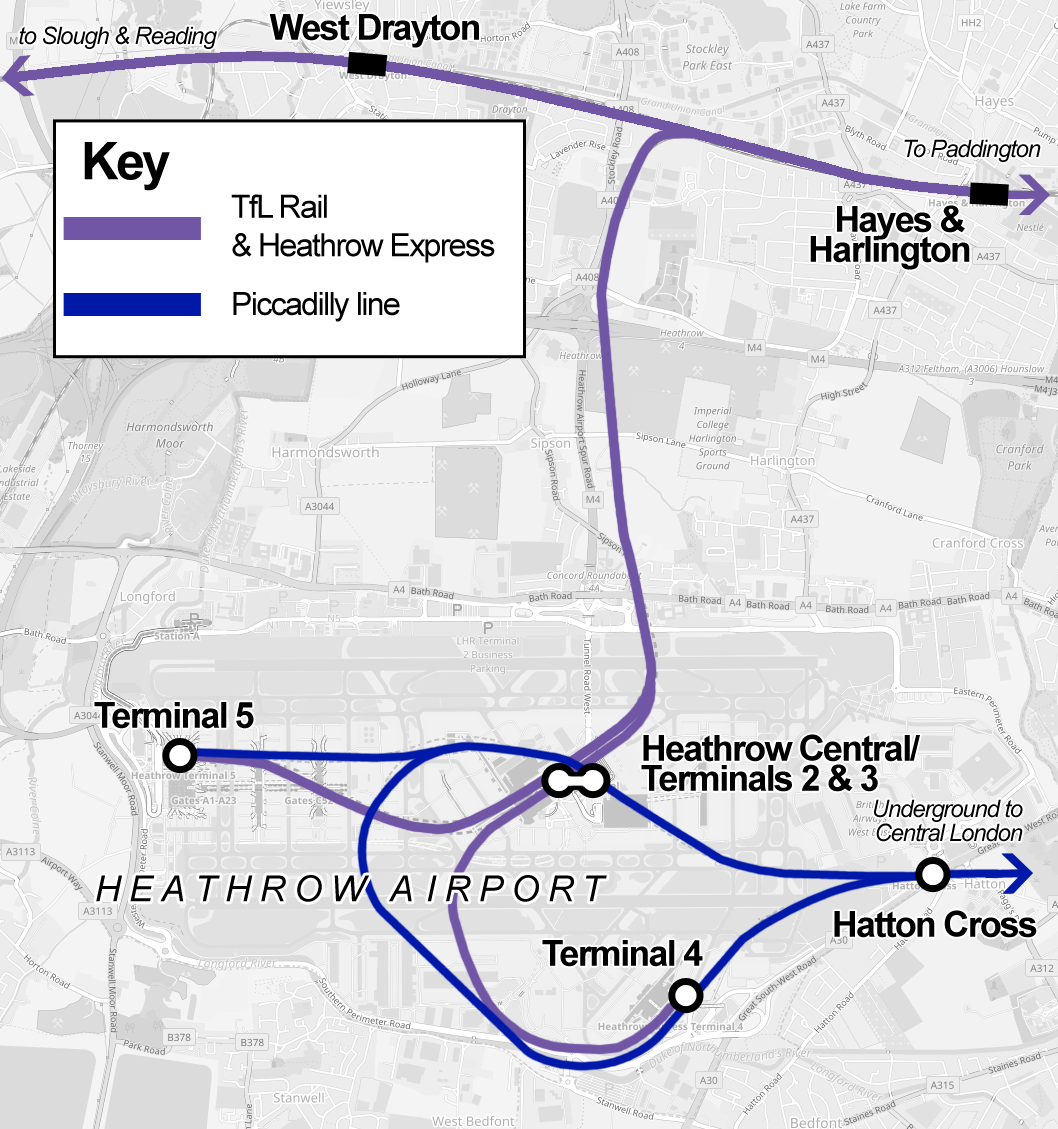 Map of the Tube and rail stations at London Heathrow Airport, showing the Piccadilly Line, TfL Rail/Heathrow Express This map may be incomplete, and may contain errors. Don't rely solely on it for navigation.